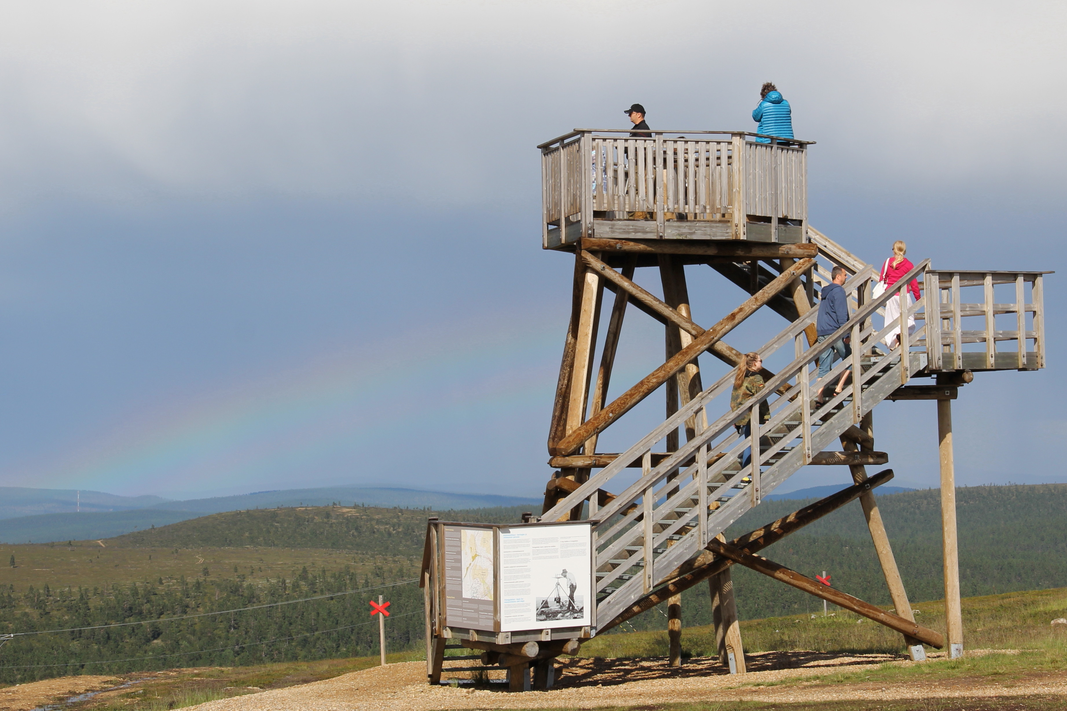 Triangulation tower with rainbow on Kaunispää, Inari, Finland. - Tower is 7,5 m high and it's inauguration day was september 5th 2011. It's built as a memorial for triangulation.